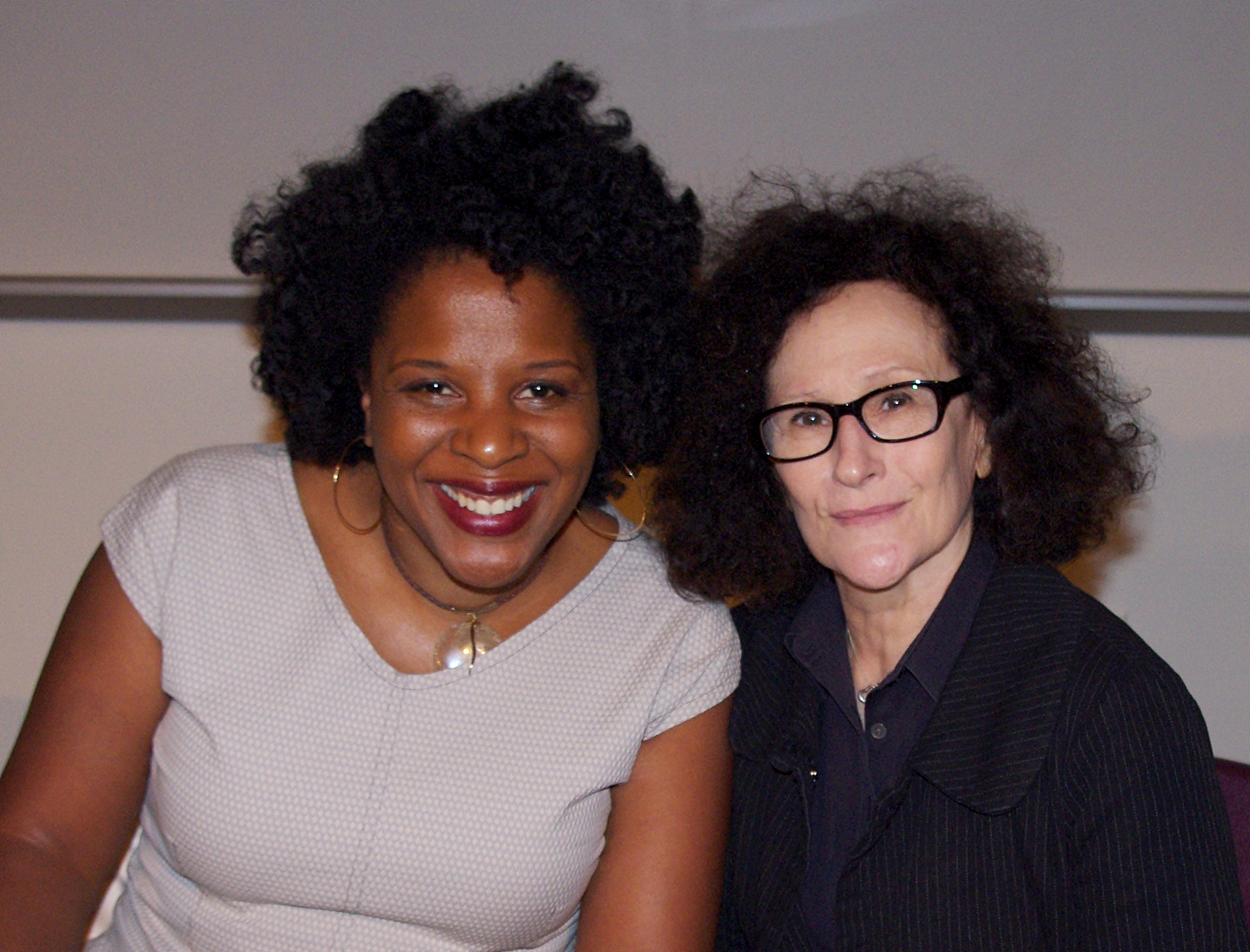 Tayari Jones and Lynne Tillman at the 2011 Brooklyn Book Festival.